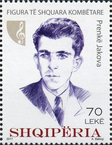 Distinguished National Personalities